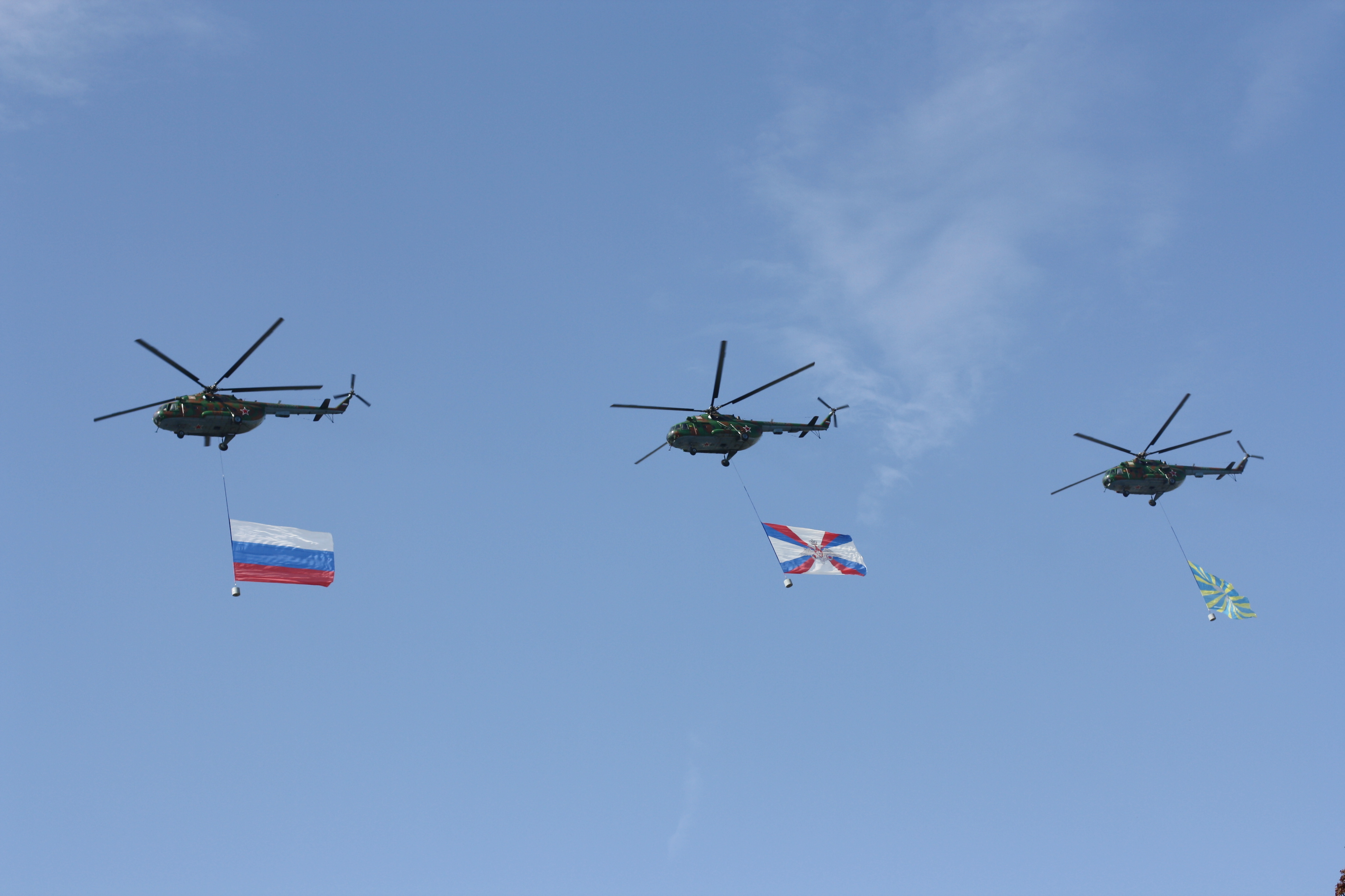 Helicopters in Russian Parad 2010